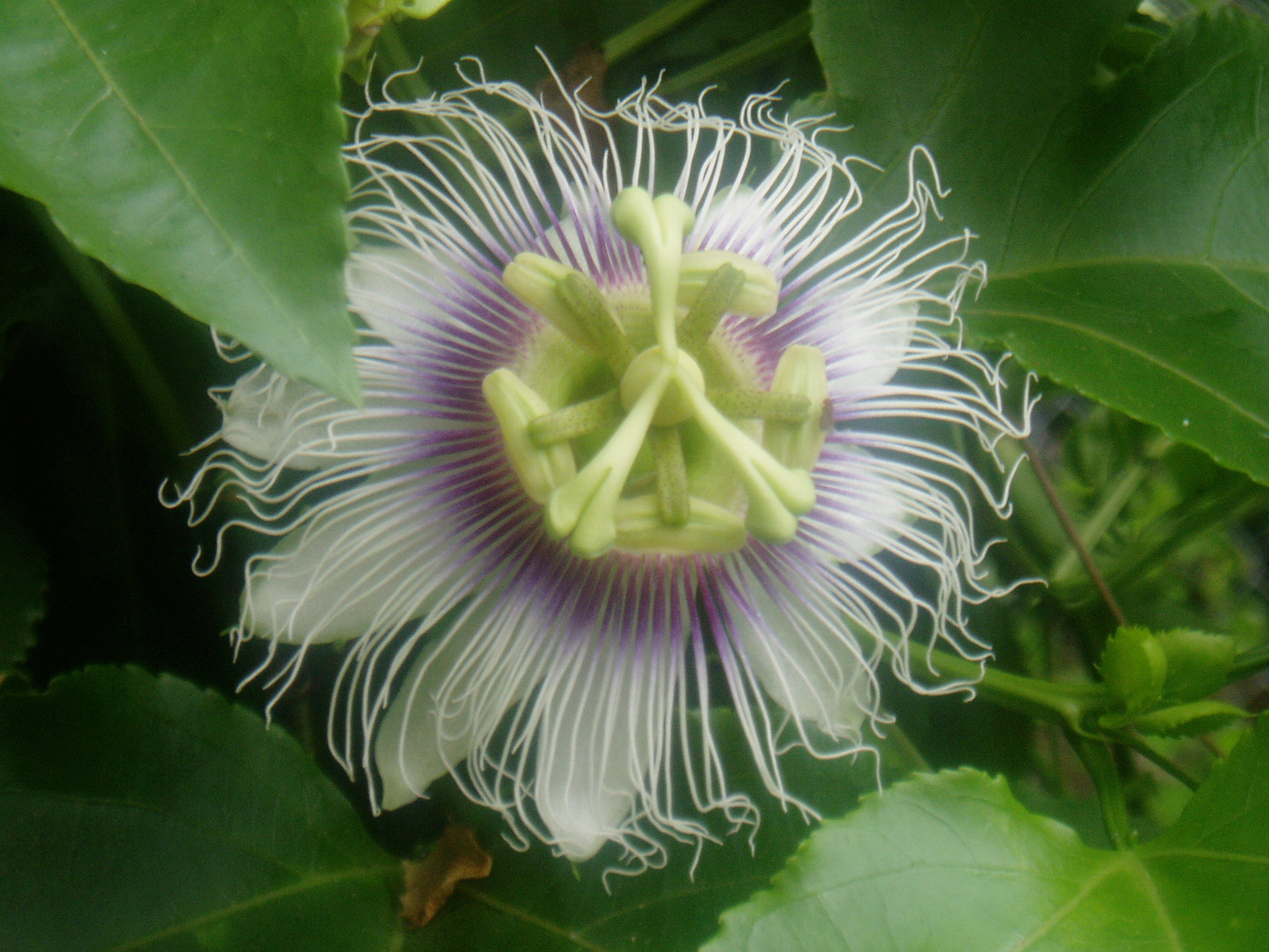 Image taken at Butterfly World, Passion fruit